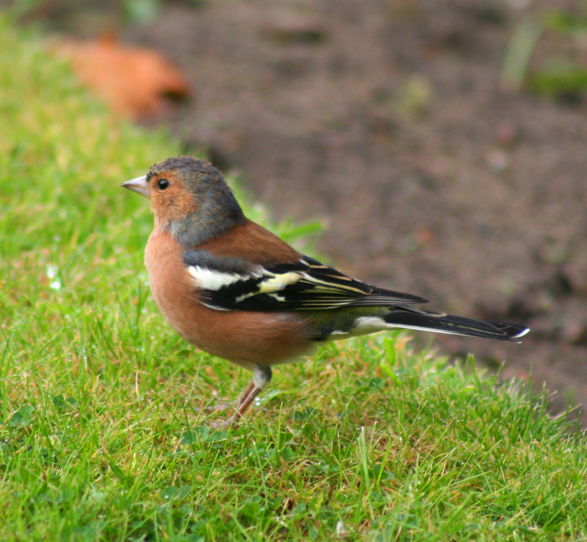 Chaffinch, male; Dornoch, Scotland